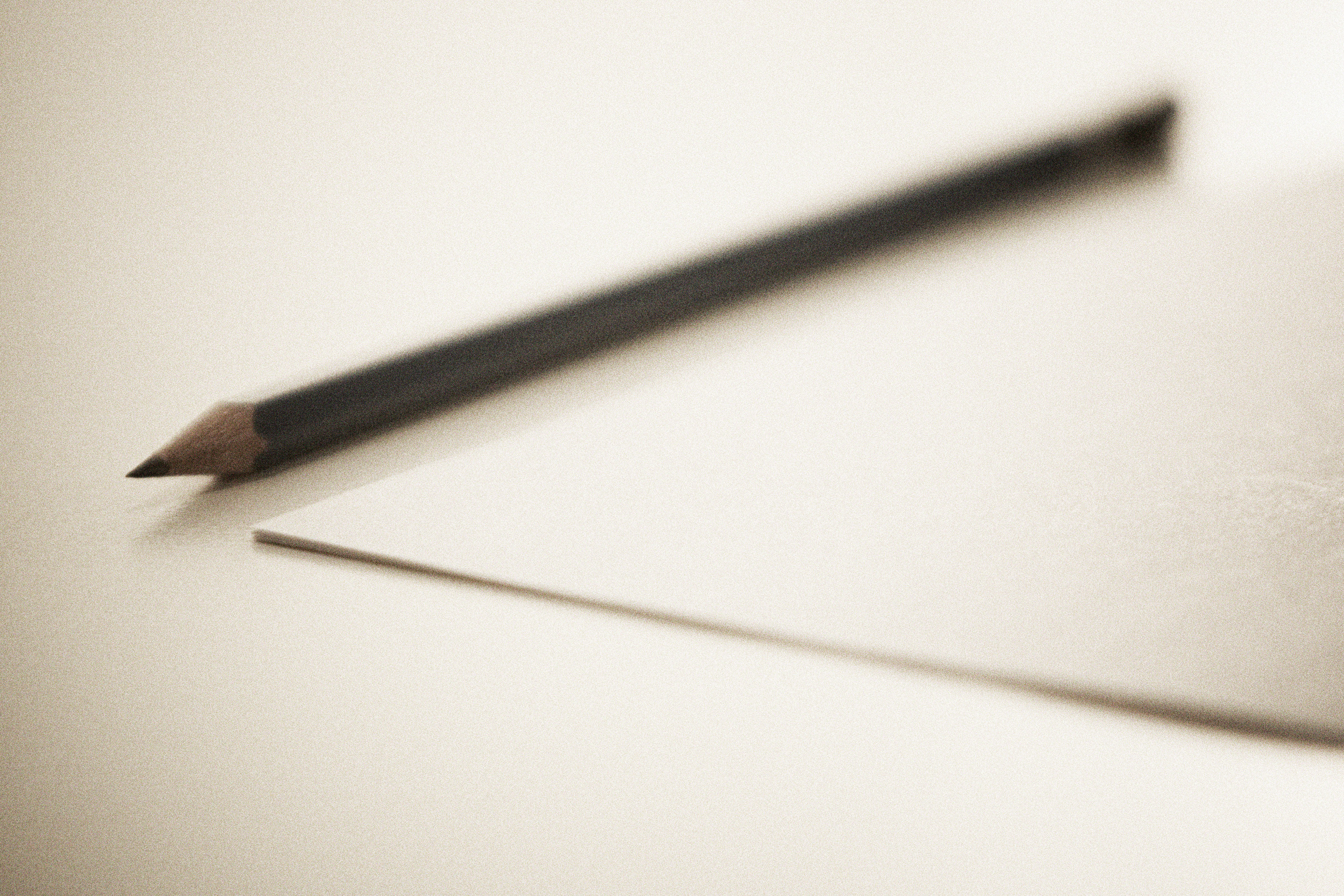 a sharpened blue-grey pencil lies on a table next to a blank sheet of paper, only partially visible. Oblique angle, narrow depth of field, high-grain, slight sepia tone.